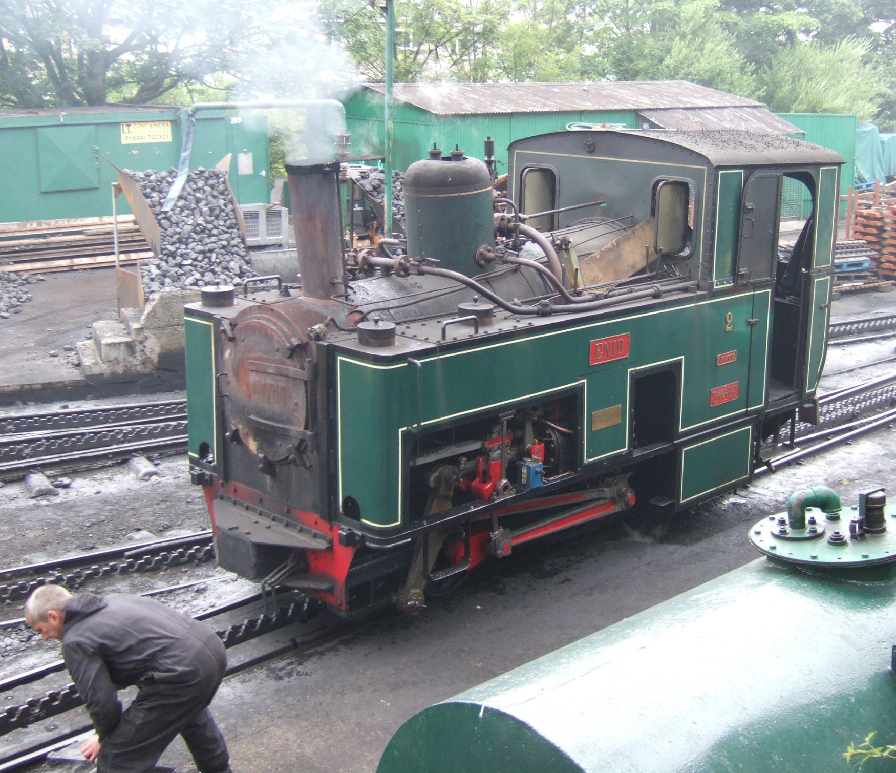 Snowdon Mountain Railway. No.2 'Enid' SLM 0-4-2T 924 of 1895, at Llanberis Shed, shunting at the end of the day. Most visitors never see the front of these engines as they always push the carriages. 19th July 2005 Photographer - A.M.Hurrell Camera - Fuji FinePix F10 Modified - Trimmed and file size reduced using Finepix Software